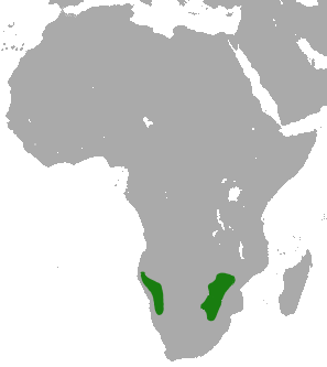 Jameson's Red Rock Hare (Pronolagus randensis) range